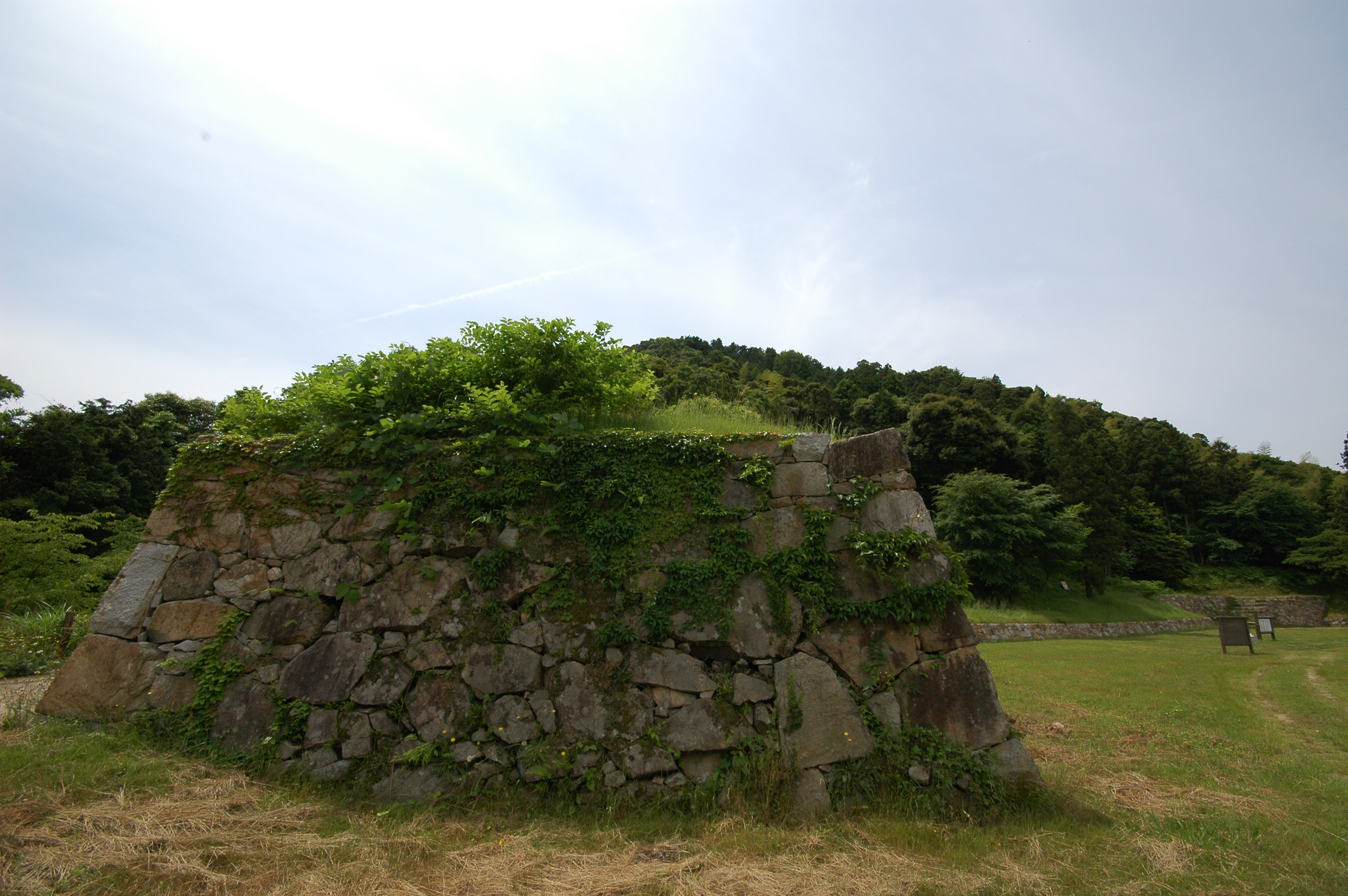 stone wall of Sugataniguchimon in Sanchu-goten and Gassan